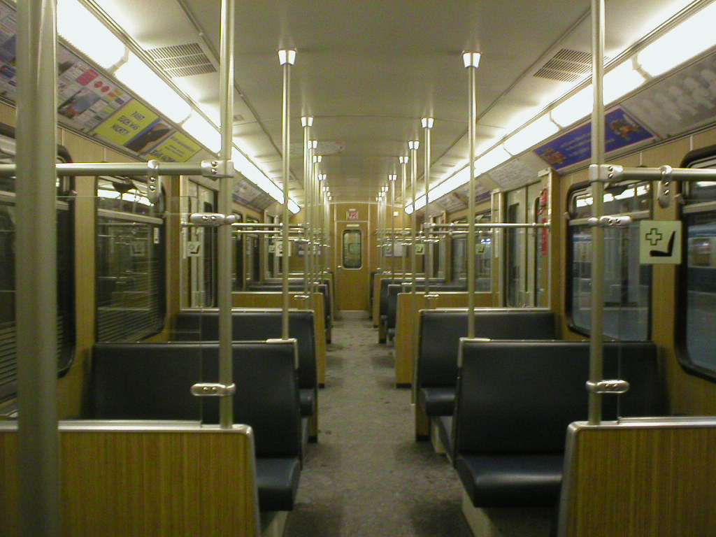 interior of a A type train of Munich's U-Bahn